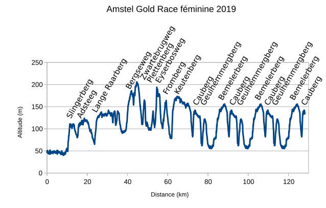 Profile of Amstel Gold Race women 2019